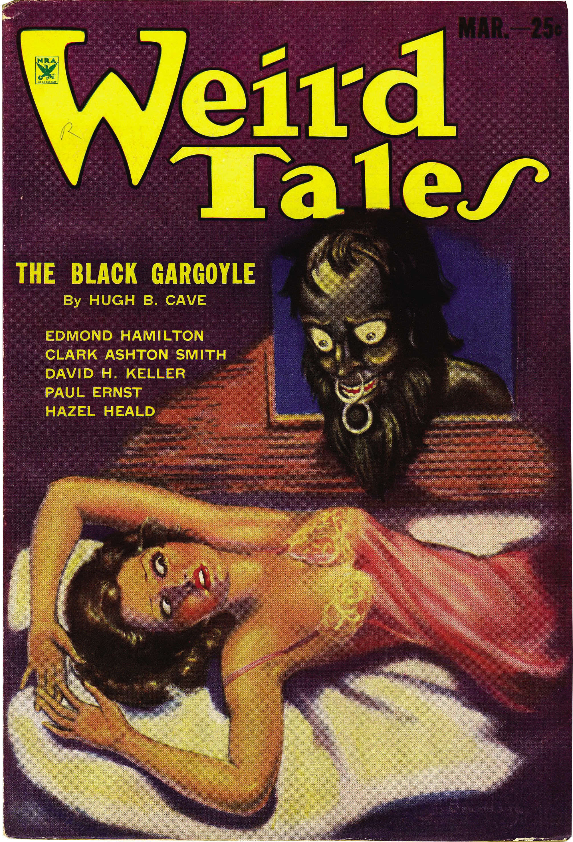 Cover of the pulp magazine Weird Tales (March 1934, vol. 23, no. 3) featuring The Black Gargoyle by Hugh B. Cave. Cover by Margaret Brundage.